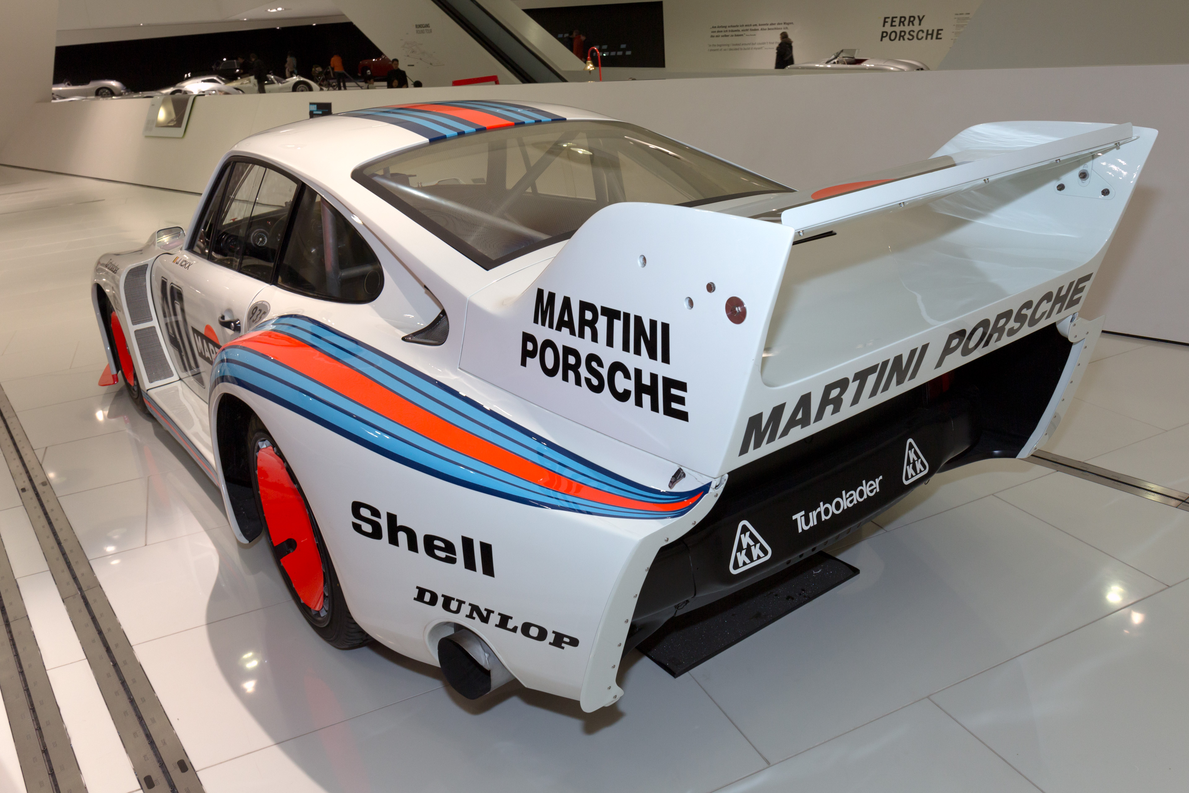 1977 Porsche 935/77 "Baby"